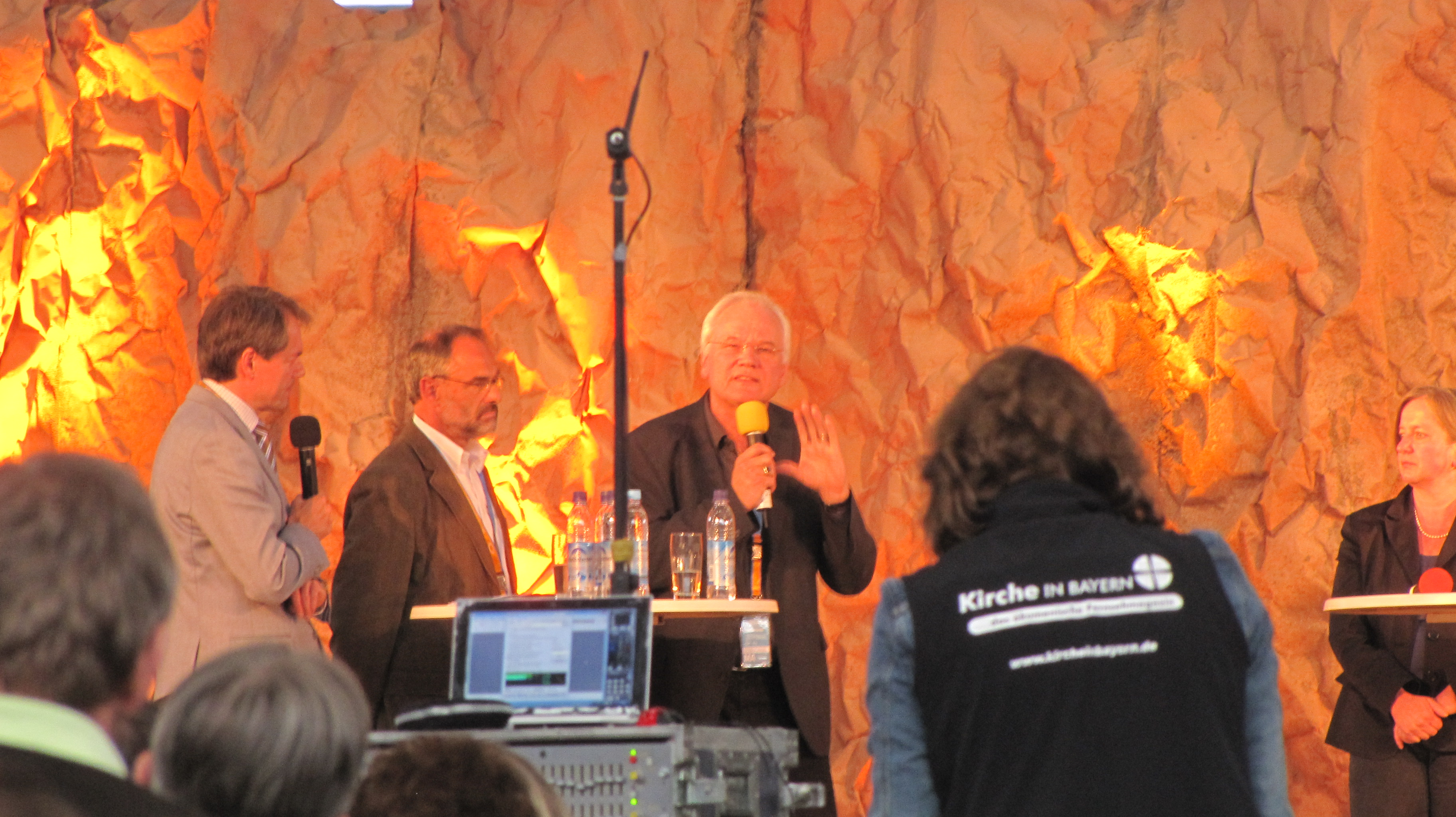 Wunibald Mueller (with yellow mike) at a discussion during the 2nd Ecumenical Kirchentag, Munich 2010